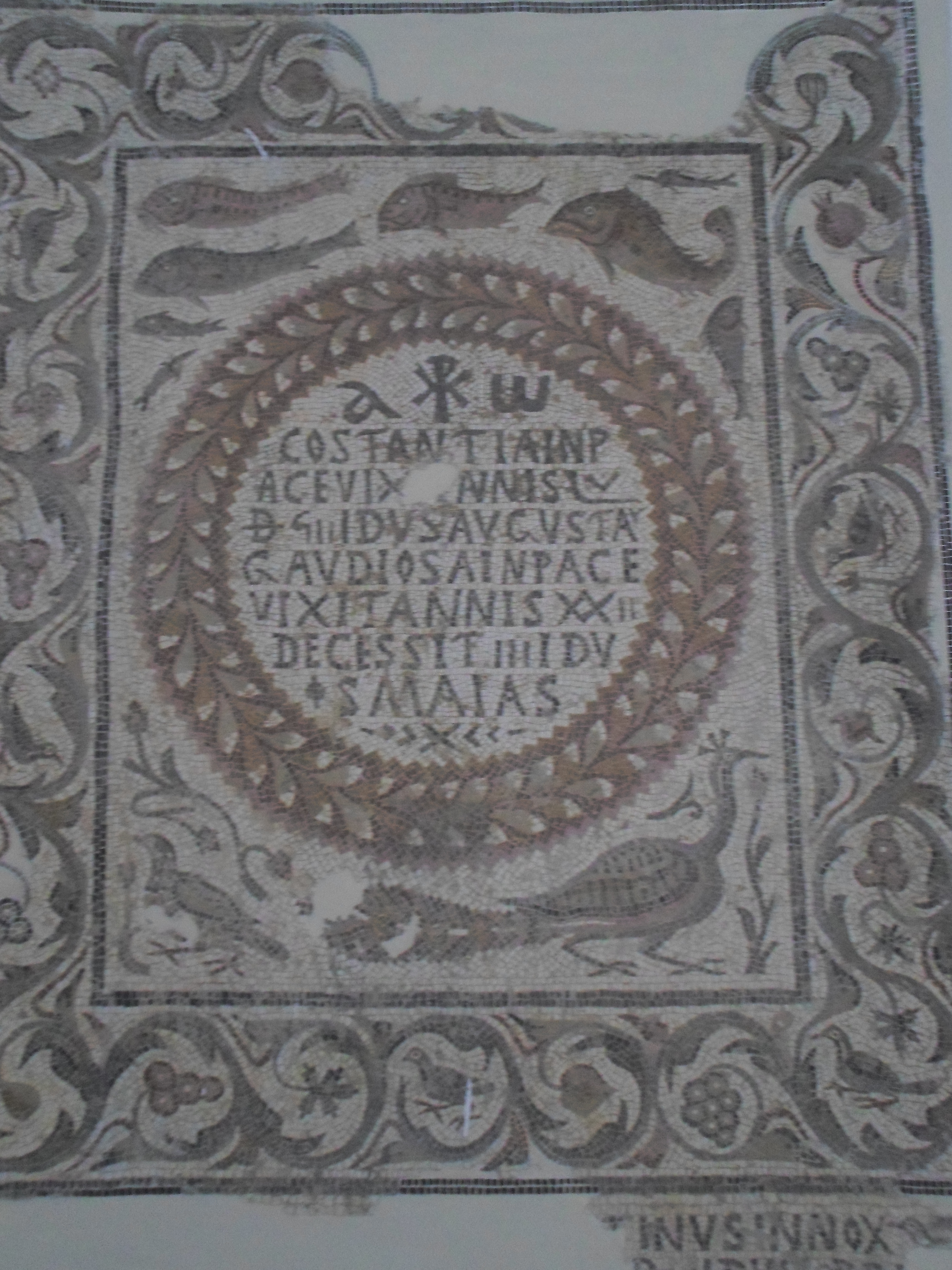 Paleochristian mosaic in the Bardo National Museum